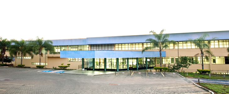 Fachada da faseh